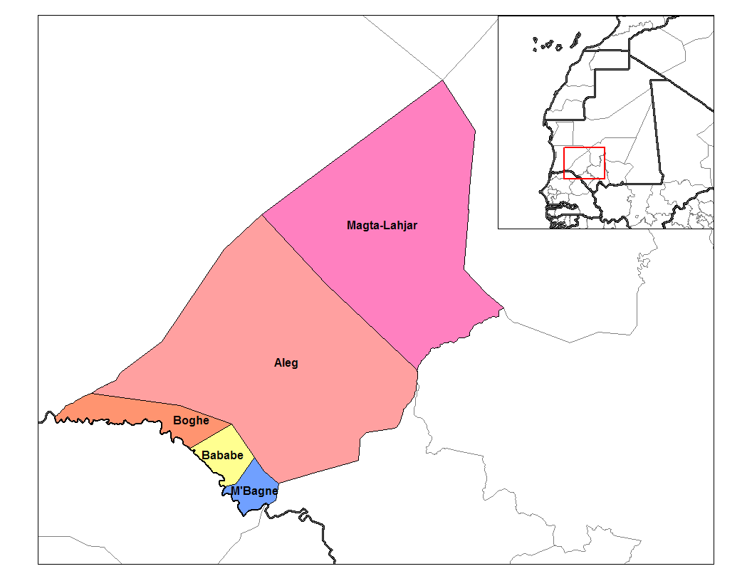 Map of the departments of Brakna region of Mauritania. Created by Rarelibra 20:07, 28 September 2006 (UTC) for public domain use, using MapInfo Professional v8.5 and various mapping resources.